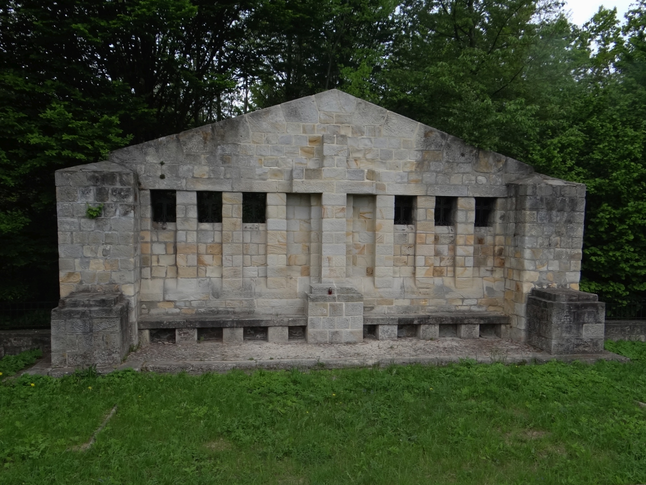 World War I Cemetery nr 116 in Staszkówka-Dawidówka